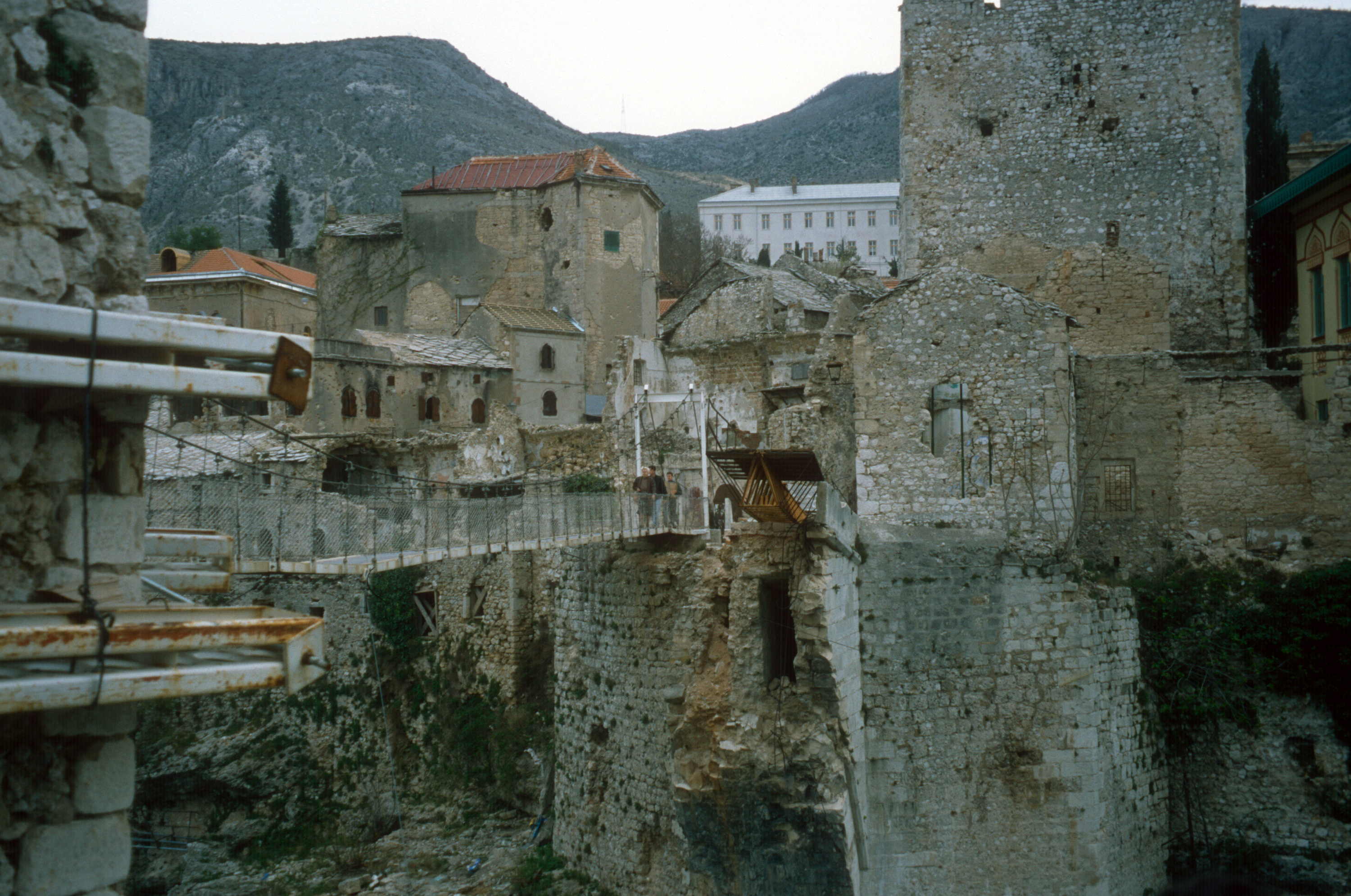 After the Stari Most in Mostar, Bosnia and Herzegovina was destroyed, a temporary cable bridge was erected across its span.